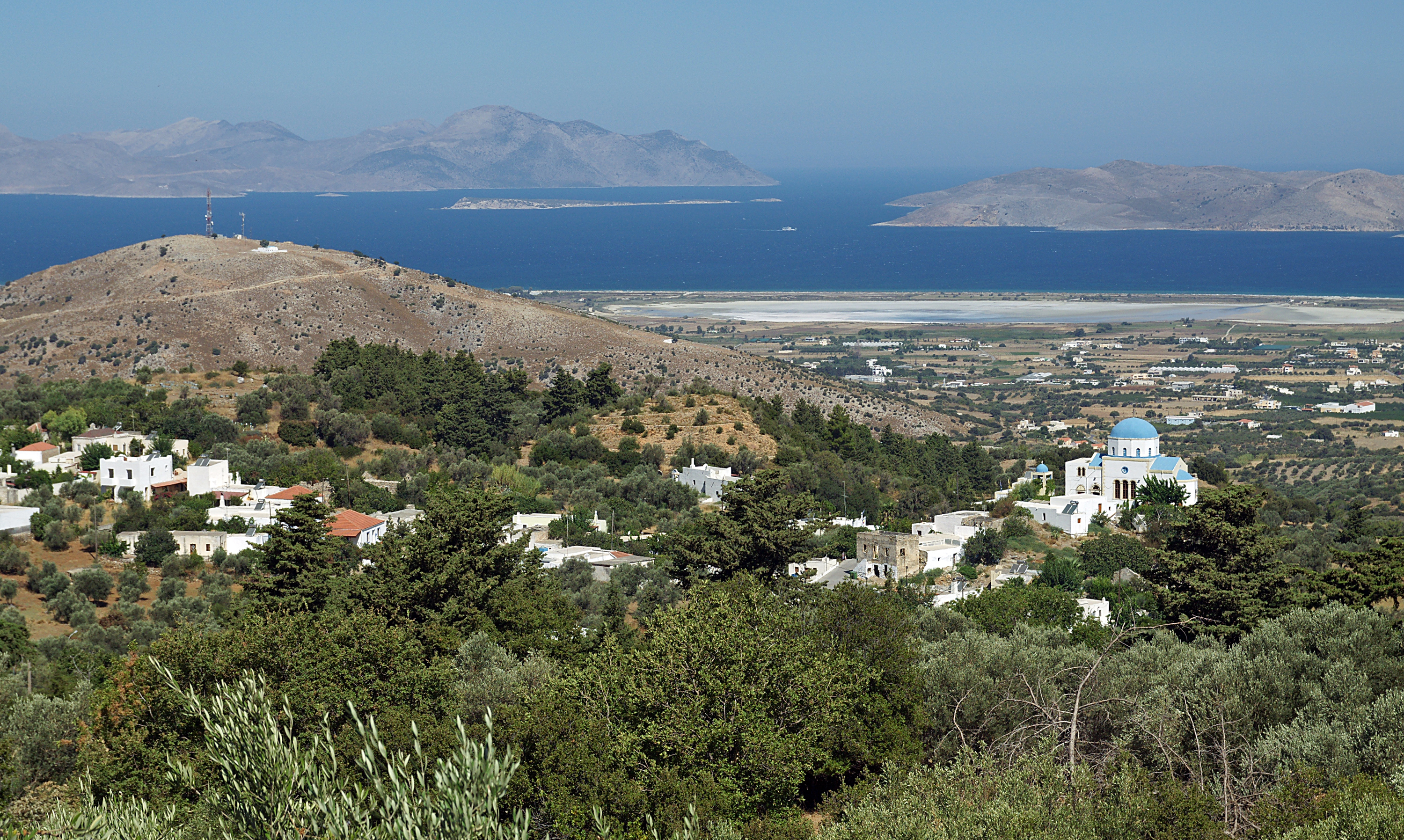 Monastery near Zia town on Kos island, Greece.